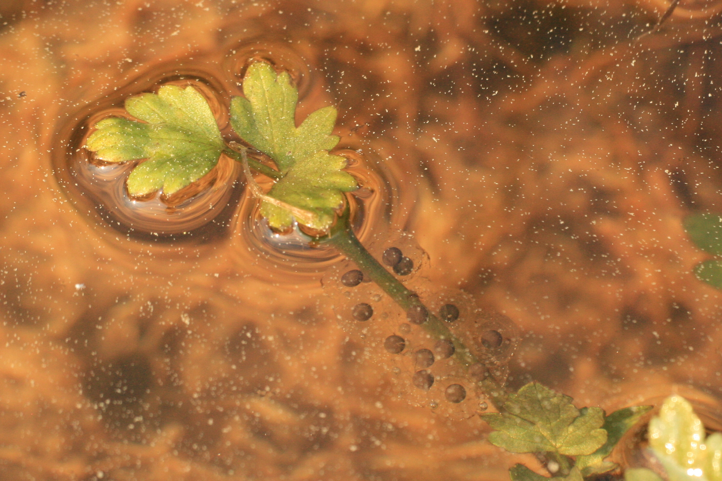 Spawn of the yellow-bellied toad (Bombina variegata) photographed in Weinsberg